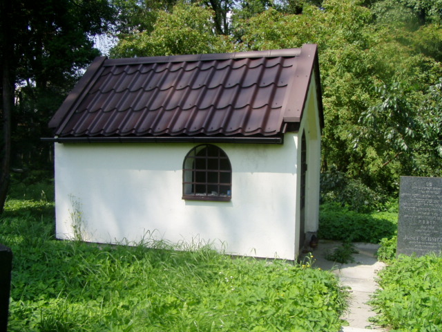 Szymon kluger ohel in Jewish cemetery in Oświęcim